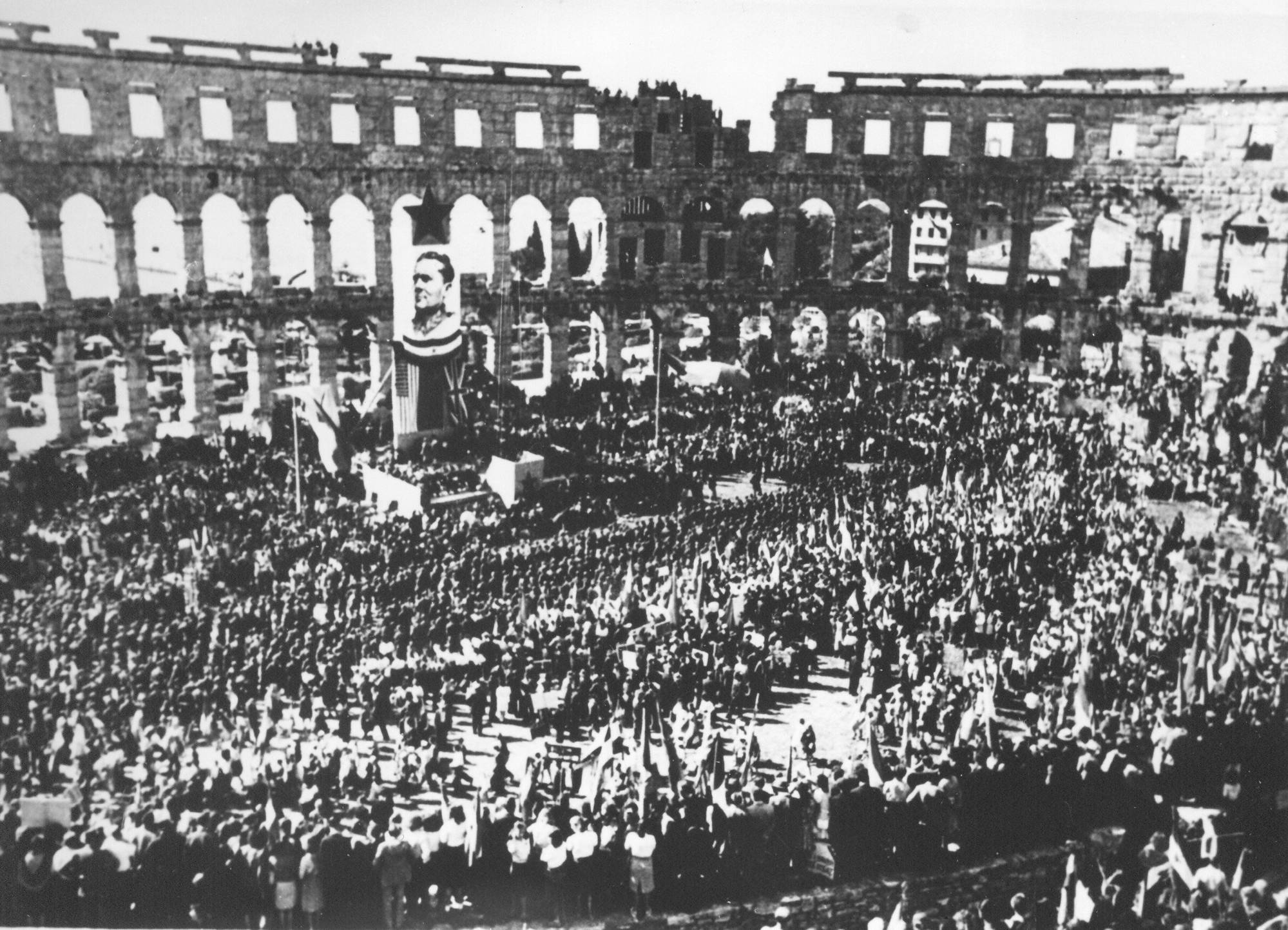 Victory day celebration in Pula, 13 May 1945.